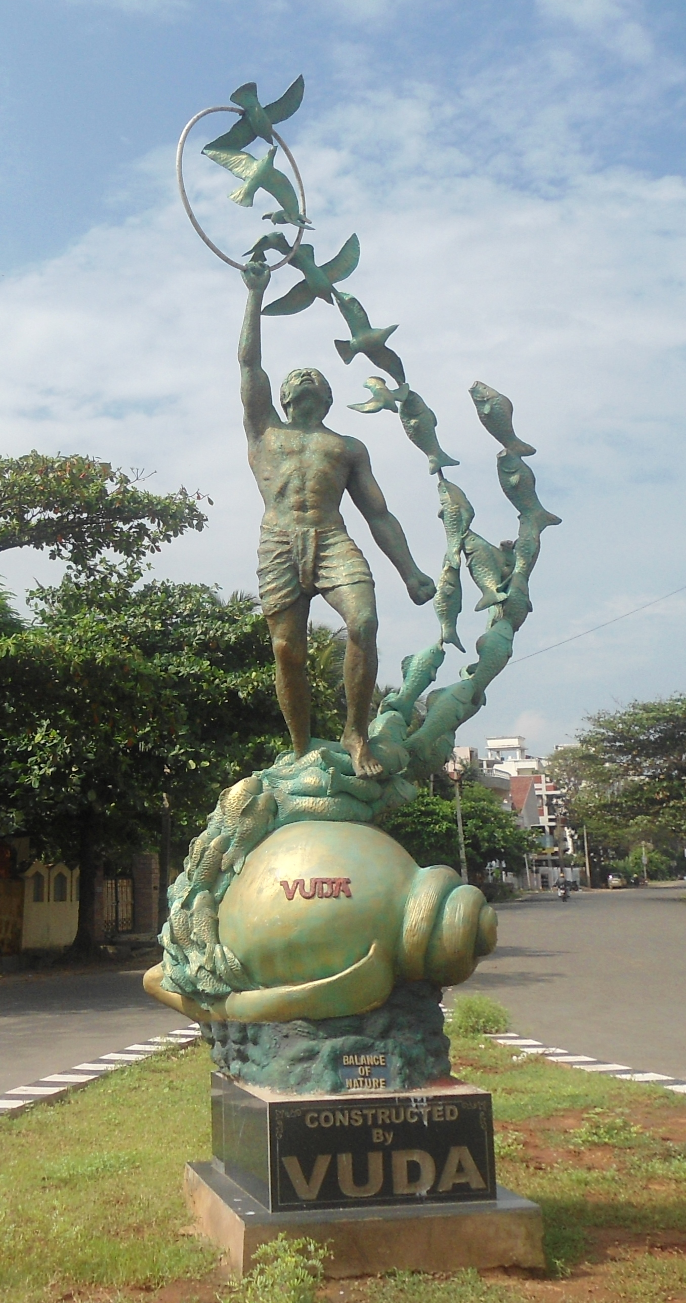 Balance of nature statue near VUDA Park in Visakhapatnam, Andhra Pradesh